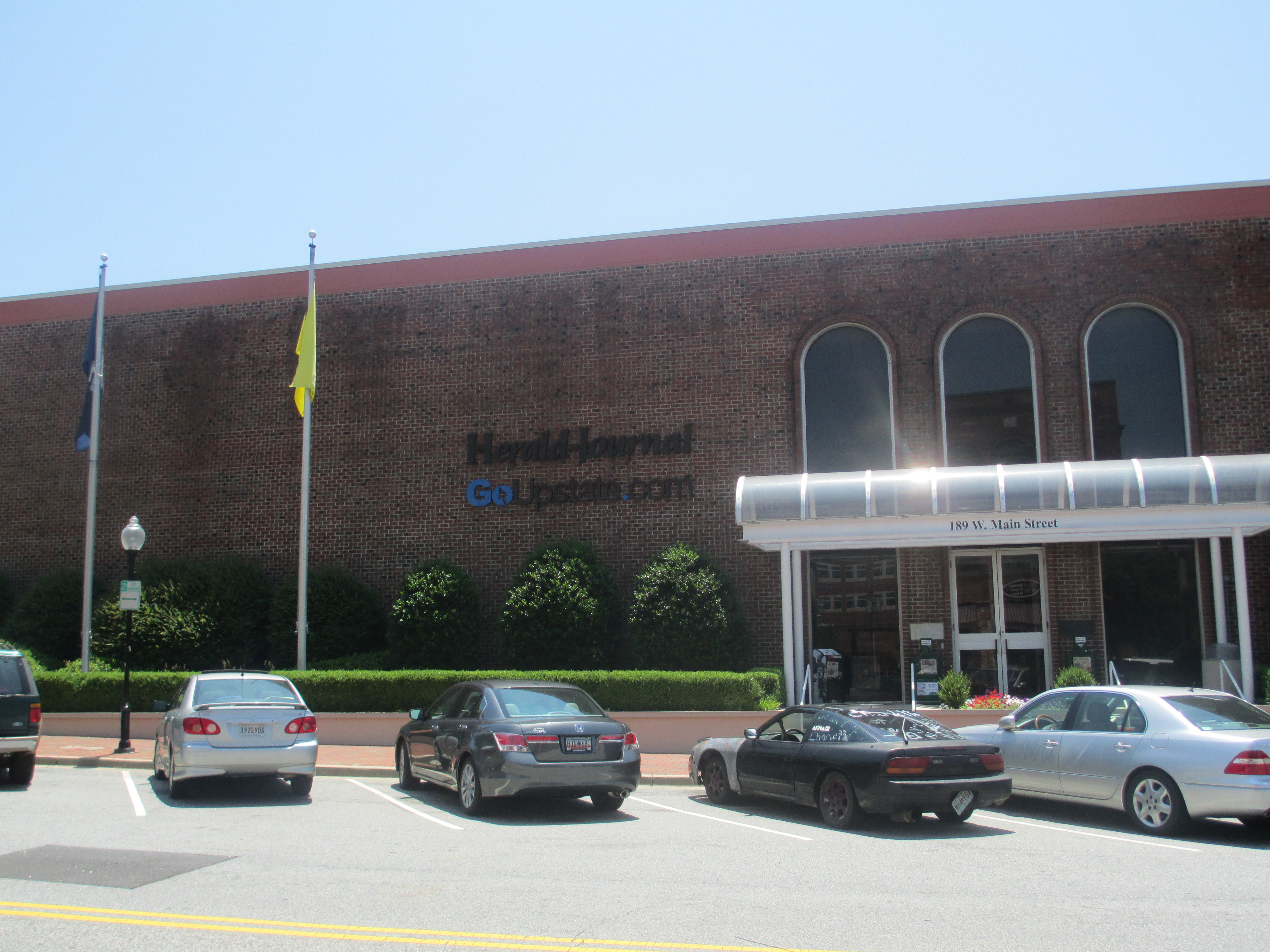 I took photo with Canon camera of Spartanburg Herald-Journal office.